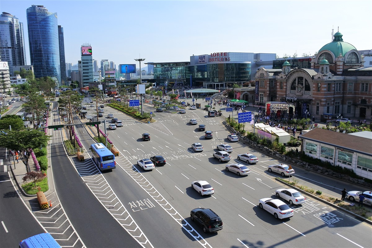 View of main street from Seoul 7017 Skypark, Korea